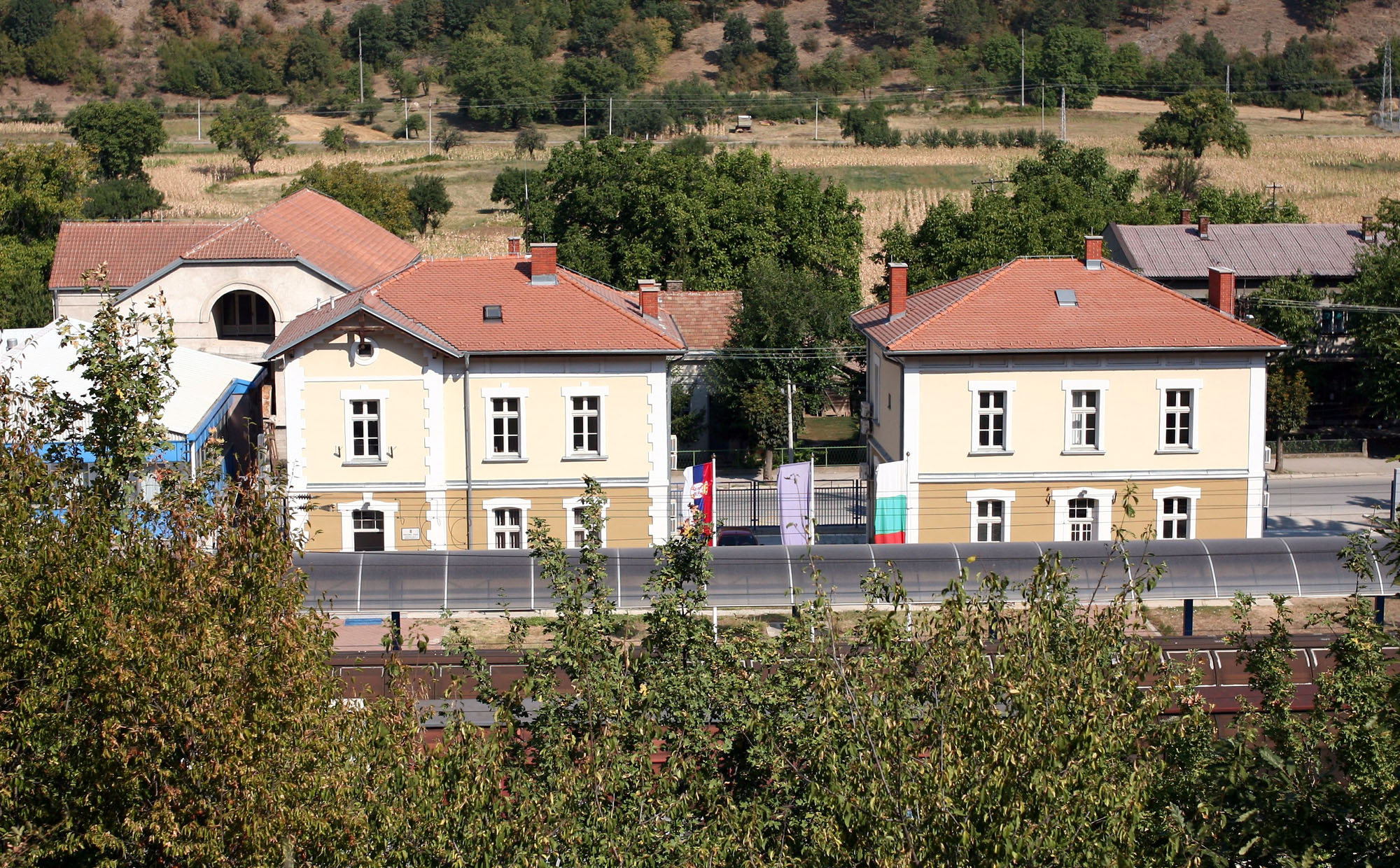 Railway station in Tsaribrod (Dimitrovgrad), Serbia